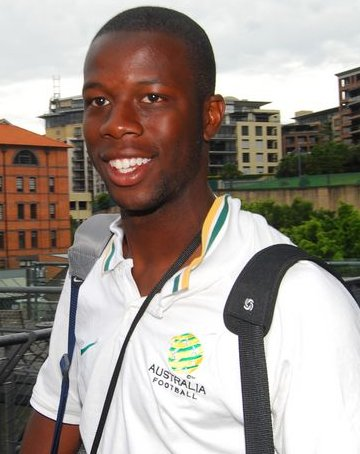 Bruce Djite at A-League awards night.